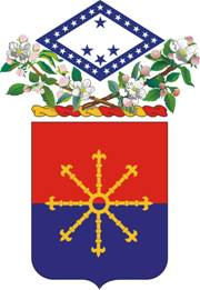 206 Field Artillery Regiment Regiment Coat Of Arms